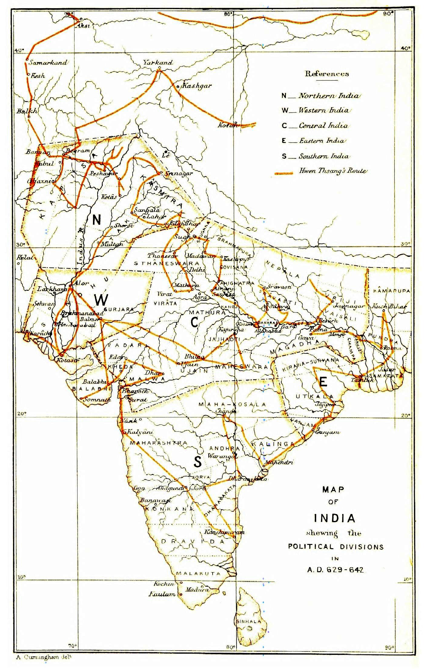 Route taken by Xuanzang in India - map drawn by Alexander Cunningham